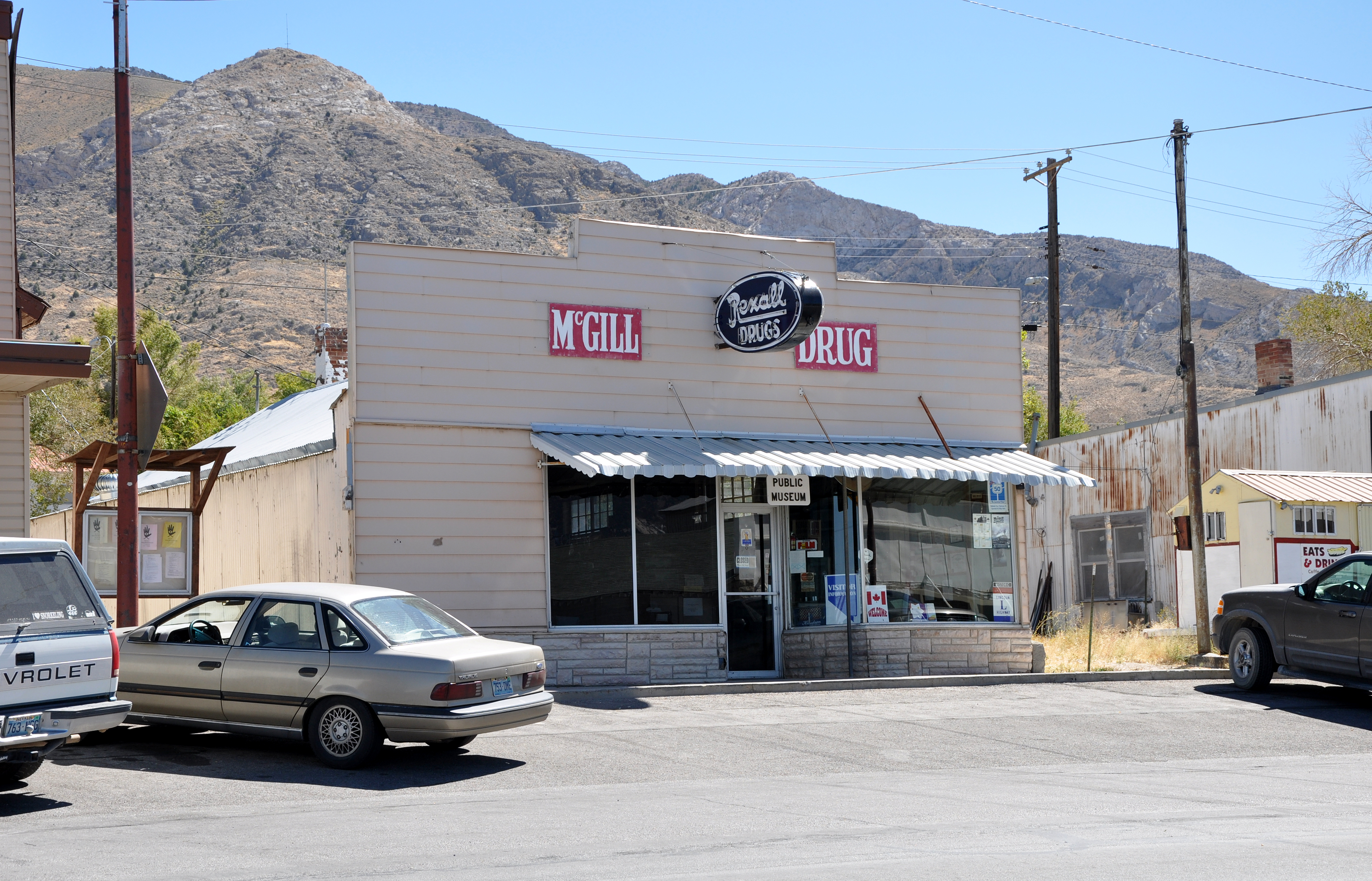 McGill Historical Drug Store Museum in McGill, Nevada, in the United States